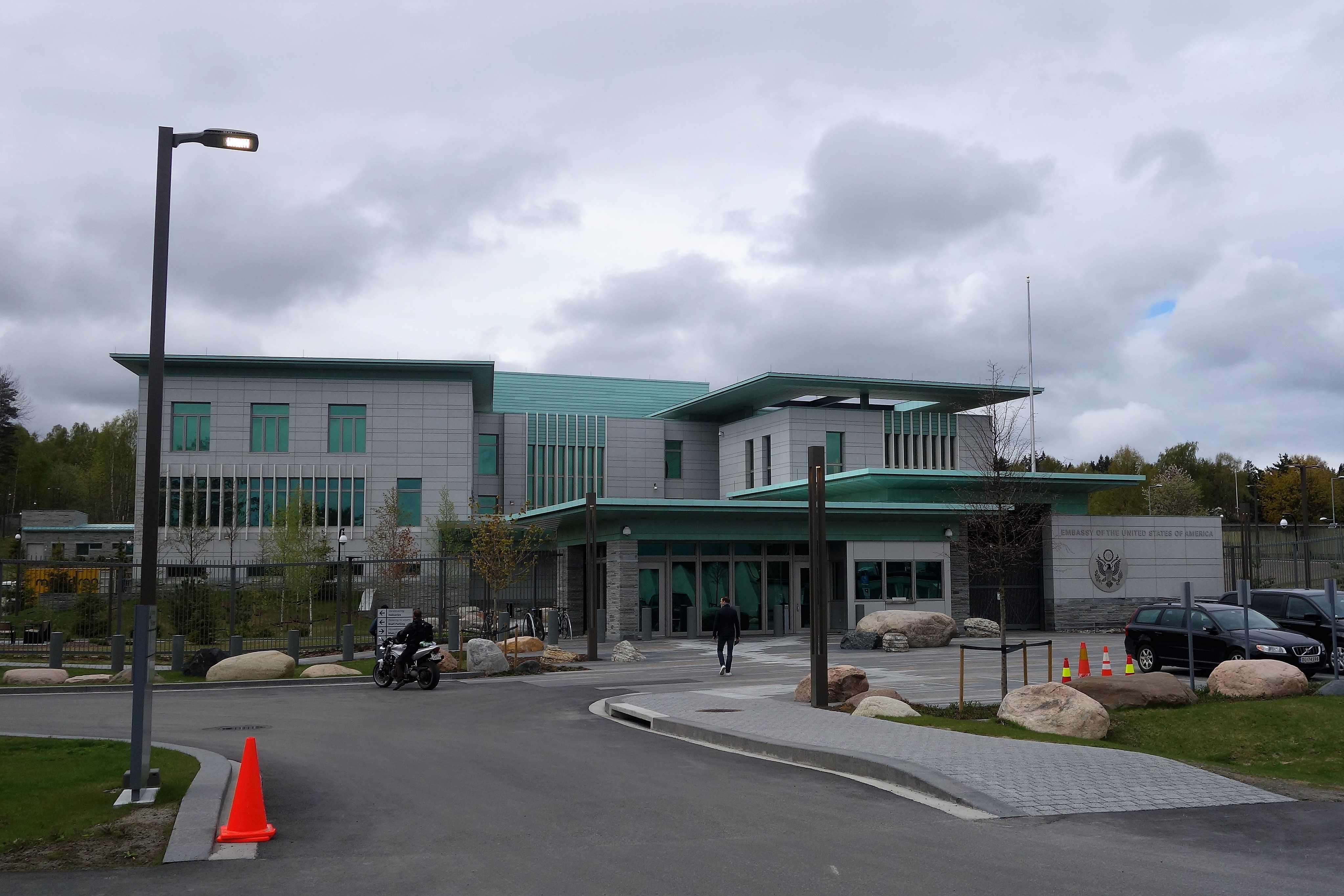 The Embassy of the United States in Norway, Oslo. This is the new embassy in Huseby, three days before the official opening 2017-05-15.